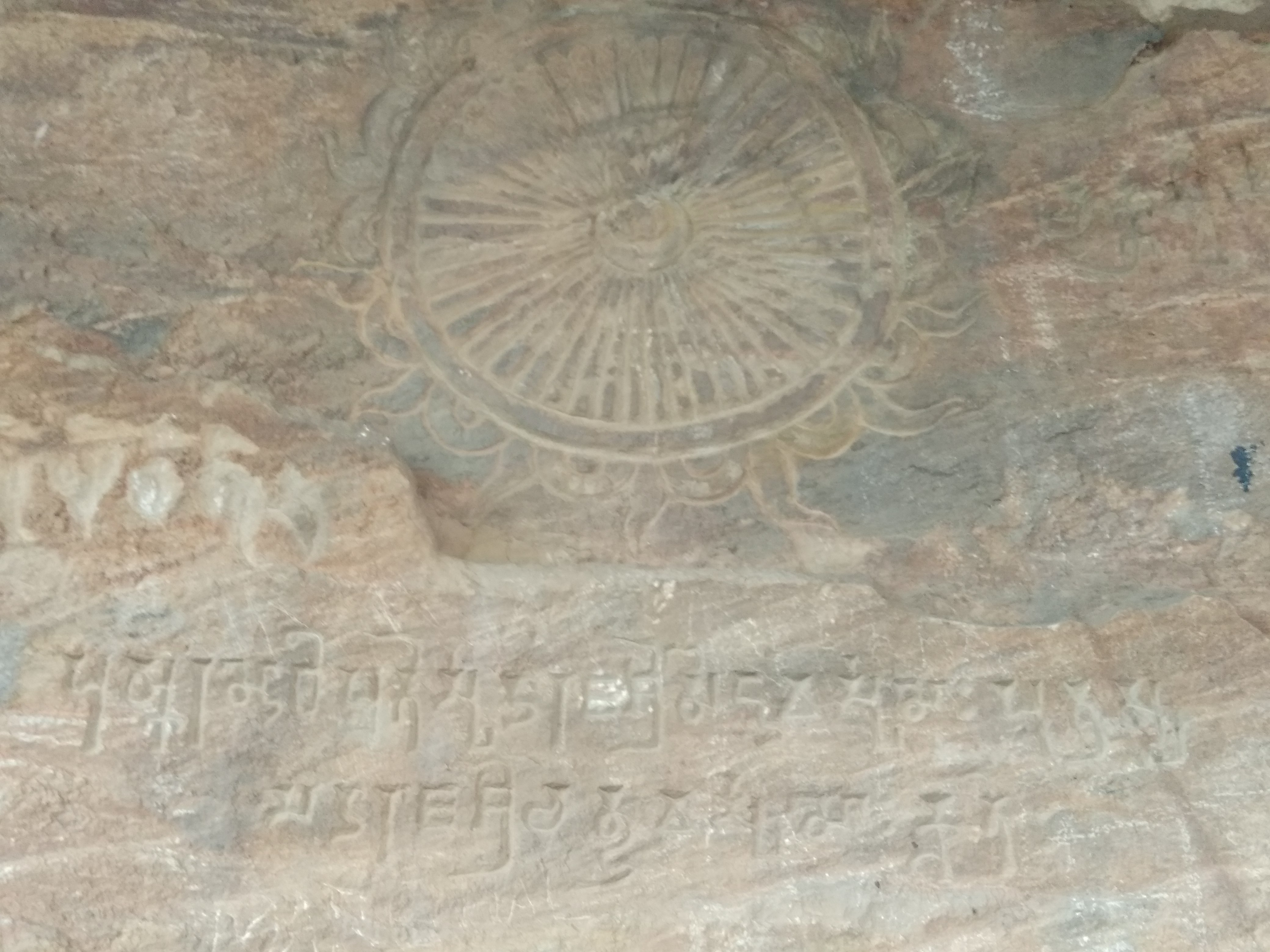 Stone inscription of Chandravarman at Susunia hill, Bankura district, West Bengal, India